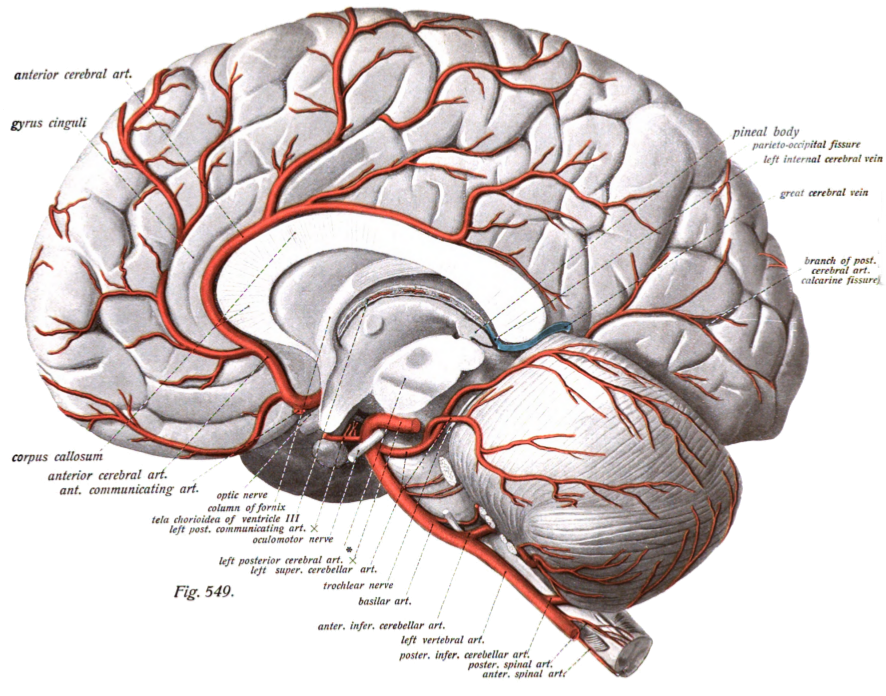 An anatomical illustration.